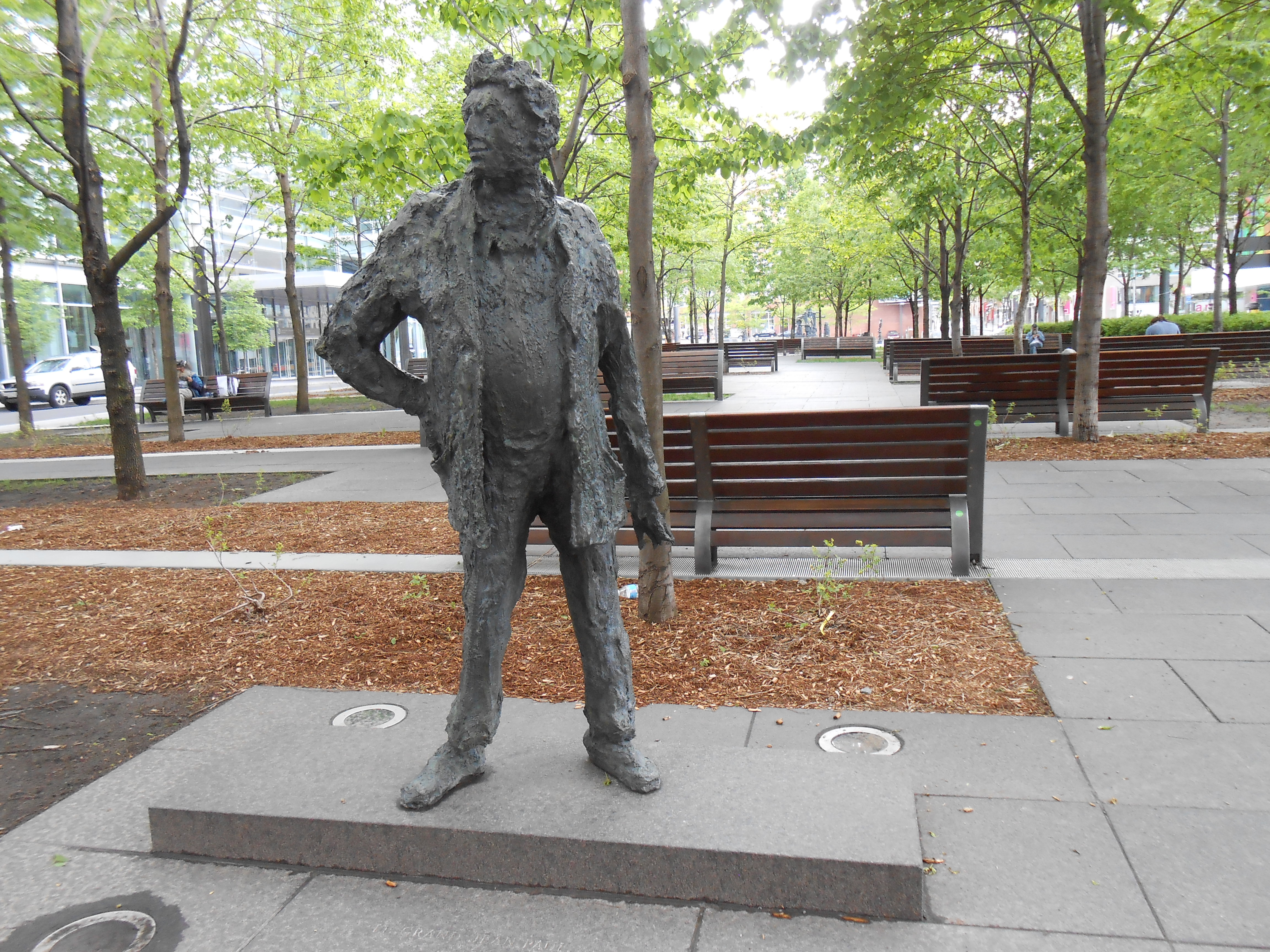 Le Grand Jean-Paul (2003), by Roseline Granet, place Jean-Paul-Riopelle, near Saint-Antoine Street West